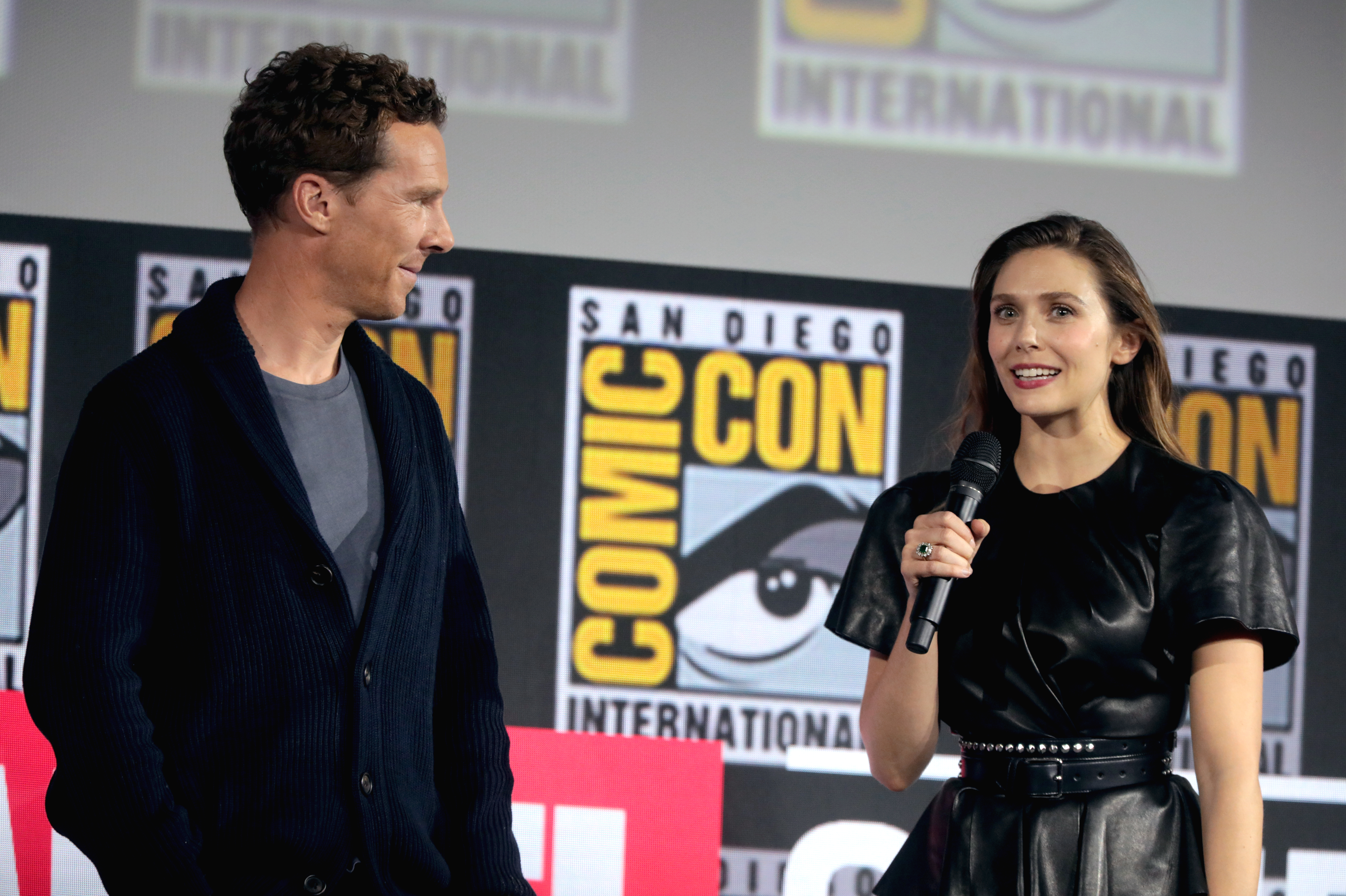 Benedict Cumberbatch and Elizabeth Olsen speaking at the 2019 San Diego Comic Con International, for "Doctor Strange in the Multiverse of Madness", at the San Diego Convention Center in San Diego, California.